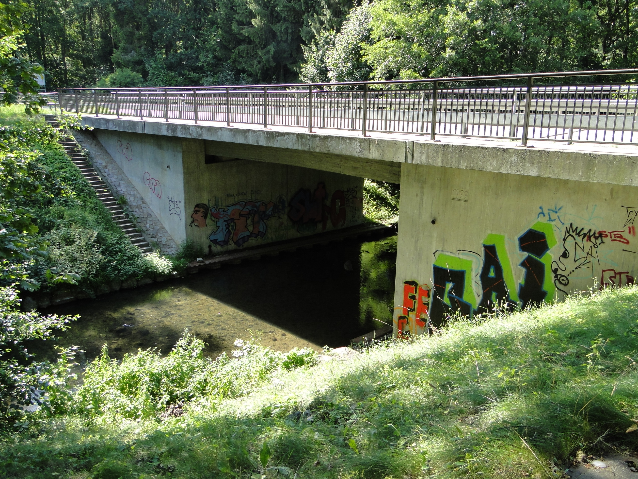 Road bridge over the Wallensteingraben in Hohen Viecheln, district Nordwestmecklenburg, Mecklenburg-Vorpommern, Germany